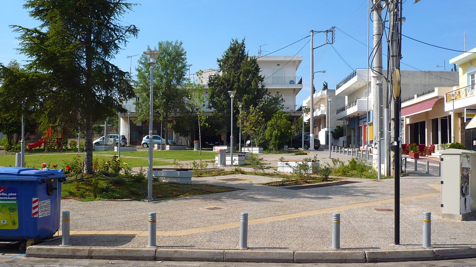 The above picture depicts the central Ksenofontos Square at Spata.